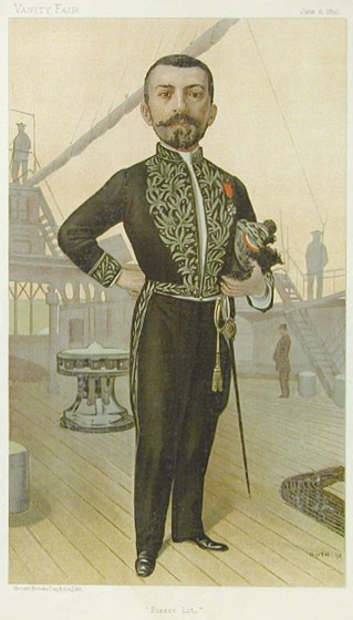 Caricature of Julien Viaud. Caption read "Pierre Loti".